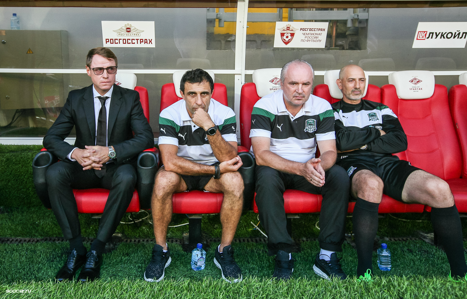 Spartak-krasnodar